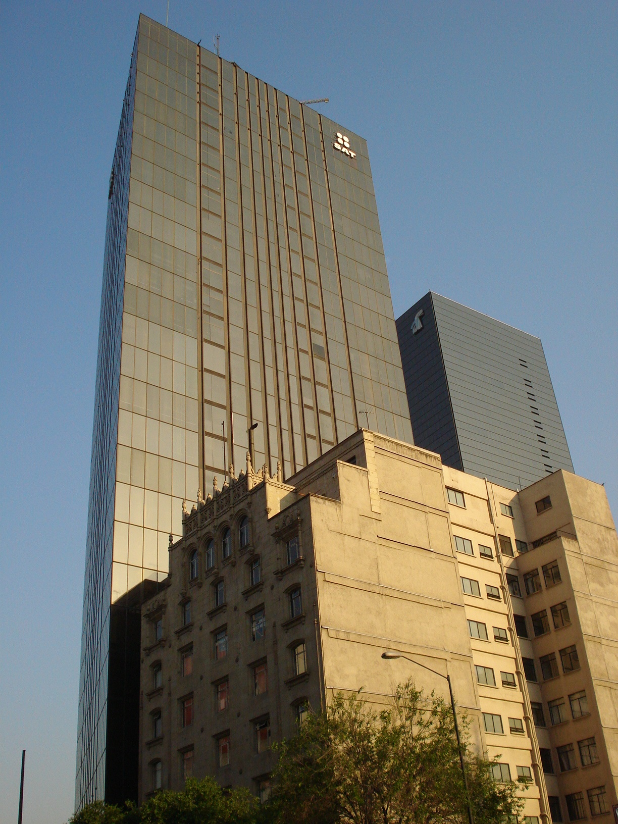 Prisma Tower in Mexico City, Secretaria de Administracion Tributaria the internal revenue service of Mexico building located on Reforma Ave in Mexico City